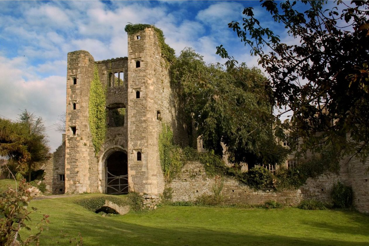 Probably part of the earlier castle.